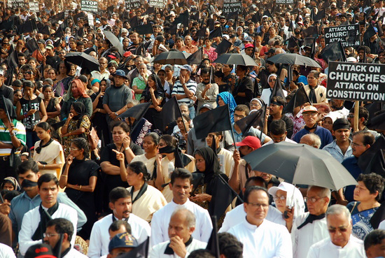 An image of the Christian protests against the Somasekhara Commission report in Mangalore.